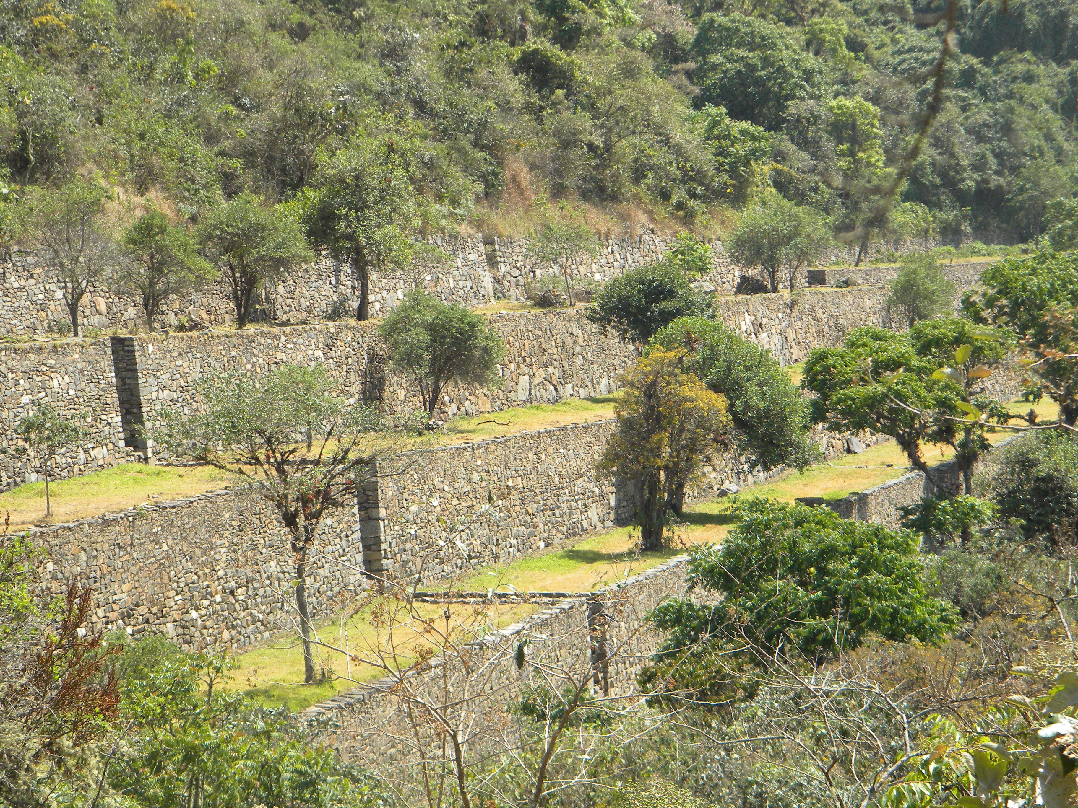 Terraces at Choquequirao